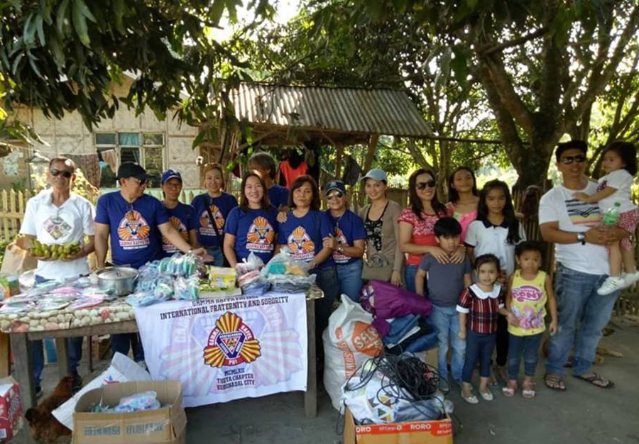 This photo was taken during the community service of the members and belonged as a property image of Gamma Kappa Phi Theta-Marbel Chapter in Koronadal City. The photo was contributed by a member and allowed the organization to use or published for any noble objective purposes.